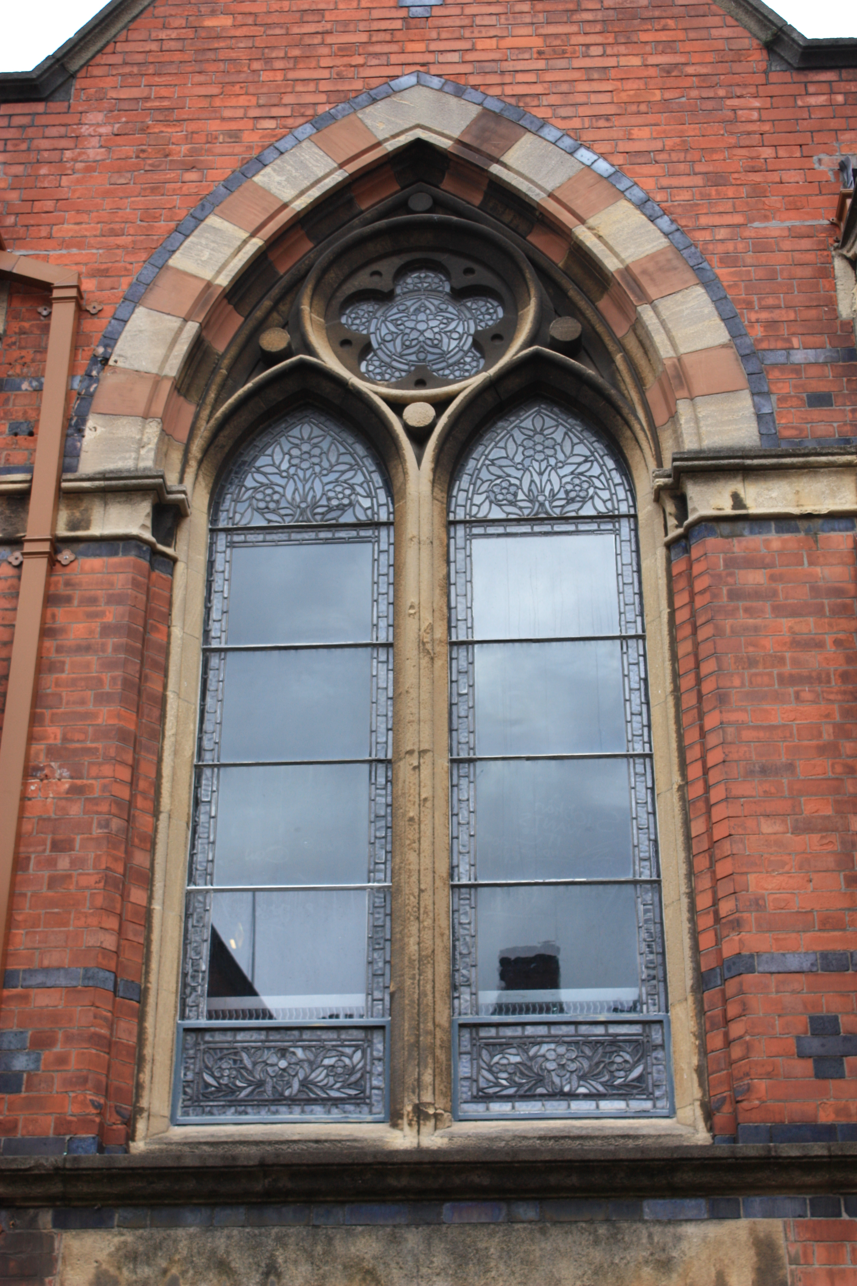 Old Library (defunct), Queen's University Belfast, Belfast, Northern Ireland, October 2009